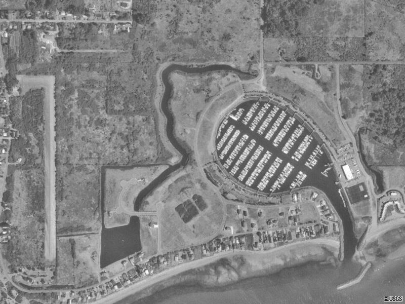 An arial view of the Point Roberts Airpark in Point Roberts, Washington.